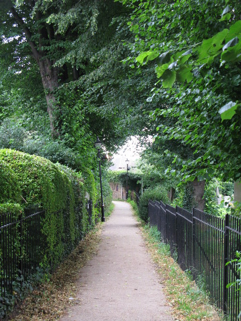 Vinegar Alley The churchyard of St Mary The Virgin, which covers over 3 acres, contains two plague pits: one from the Black Death and one from the Great Plague of 1665. The latter has left its mark in the name of this alley, so-called after the extensive use of vinegar as a preventative against the plague and which was poured into ditches either side of the alley. The exact location of the pit is now unknown, but the name remains. {Source: plaque in churchyard.}